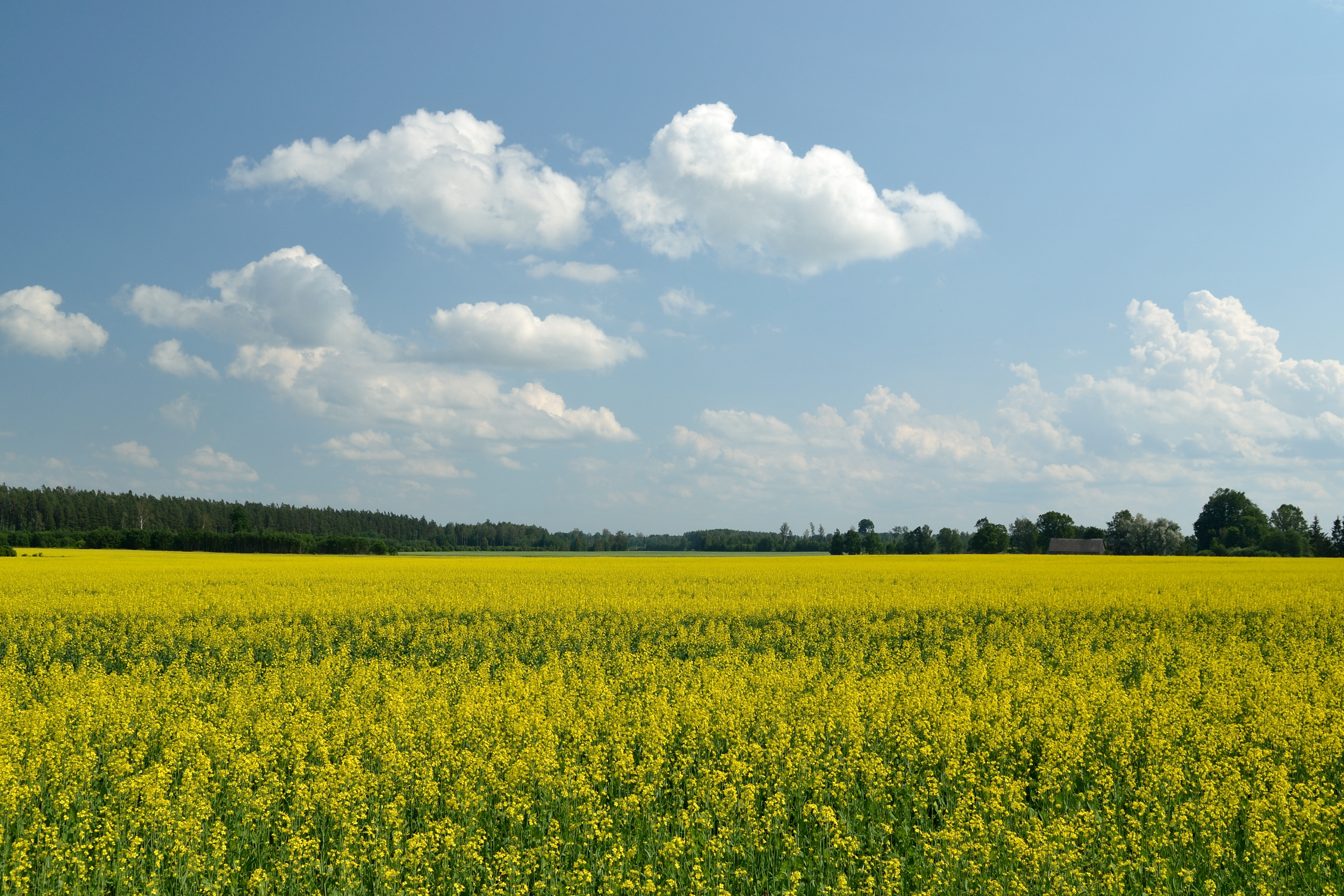 Brassica napus field in Toosi village